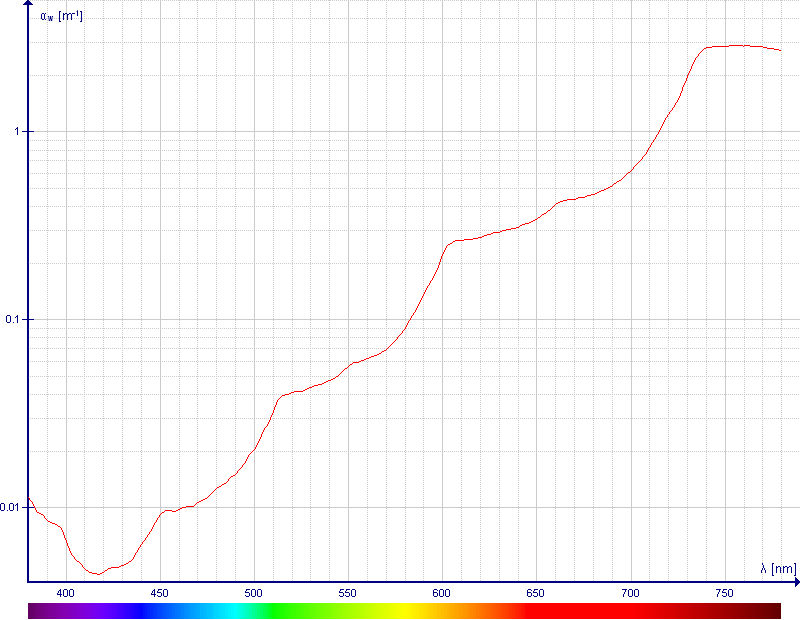 Light absorption coefficient of PURE water (without i.e. chlorophyll from phytoplanktonThe core part of this graph was created using the Graph open source application.)